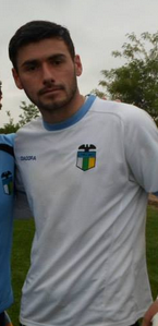 Paulo Garcés, Chilean footballer